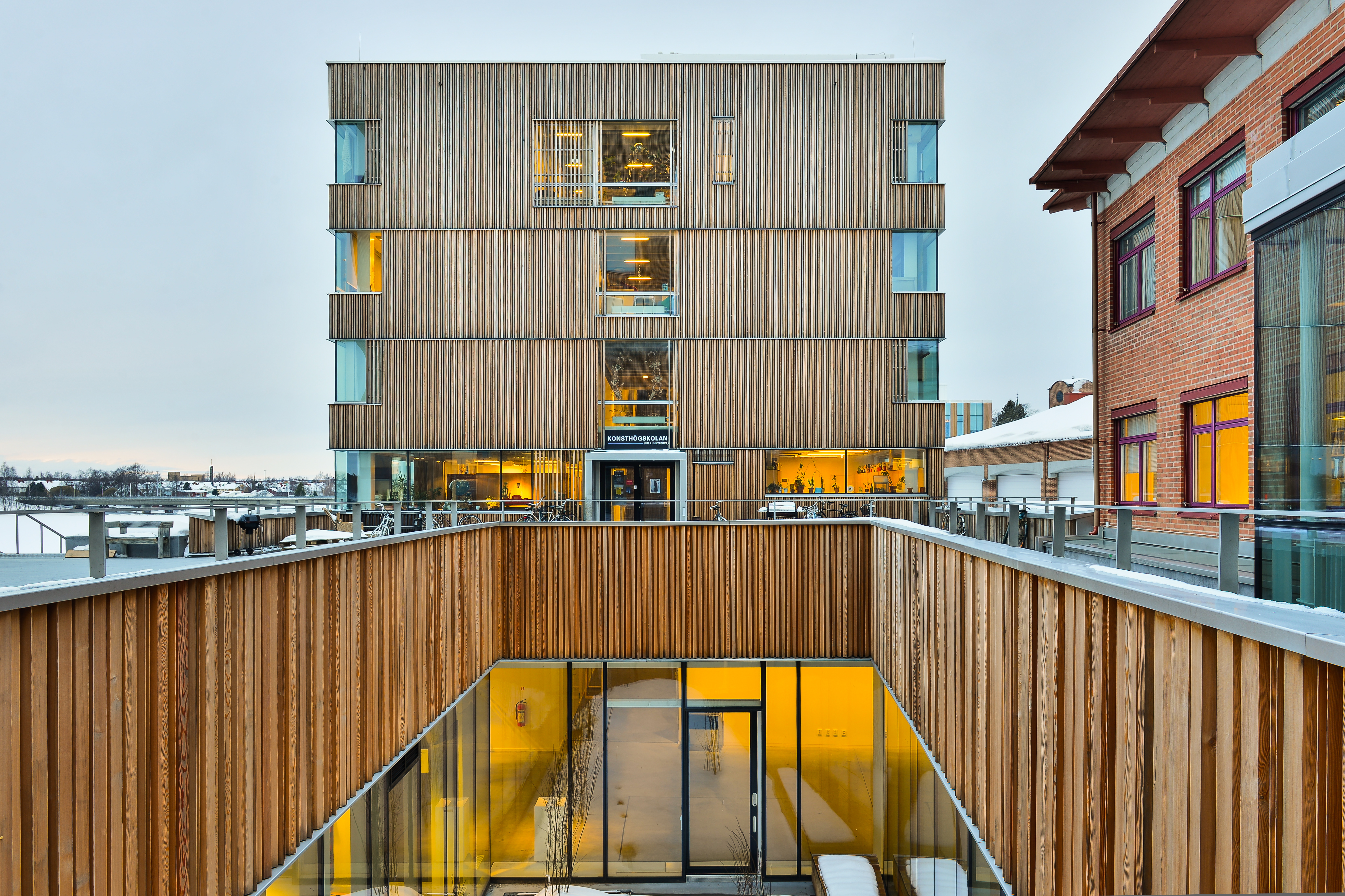 Umeå Academy of Fine Arts. Architects: Danish Henning Larsen Architects in cooperation with Swedish White arkitekter. Part of the new Arts Campus in Umeå.